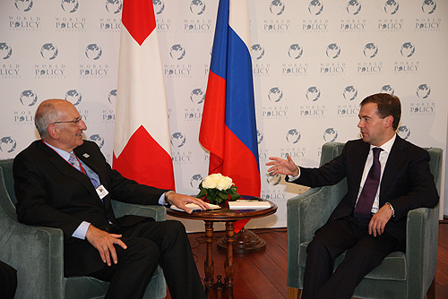 EVIAN. With President of Switzerland Pascal Couchepin.